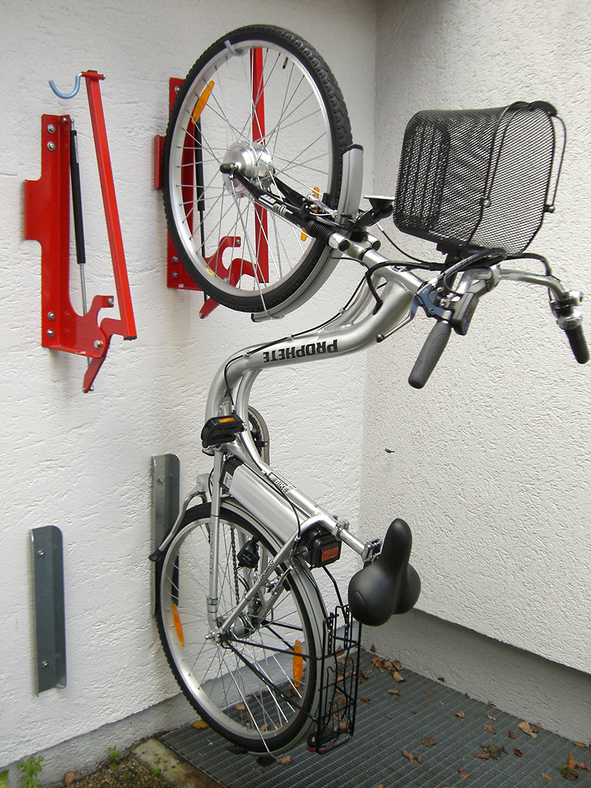 suspension bicycle rack